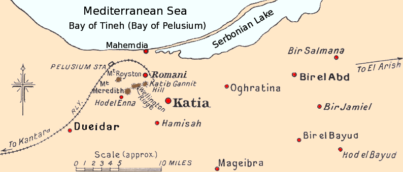 Map showing the area of the Battle of Romani, 3-5 August 1916.